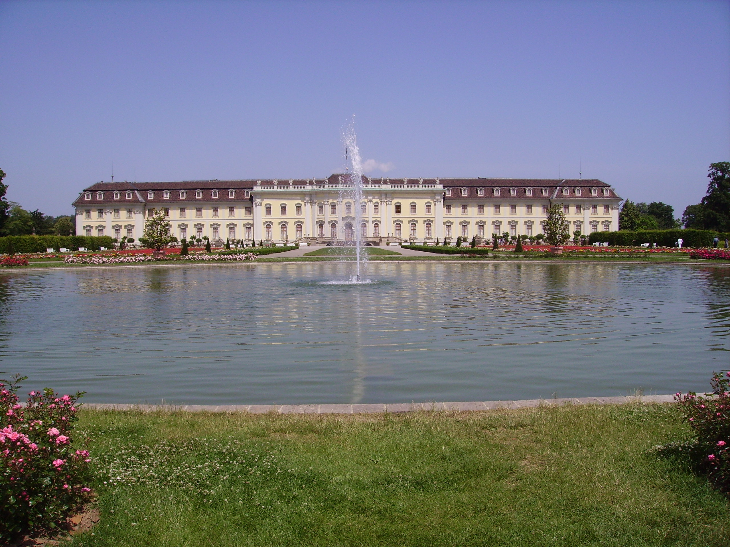 Palace, with fountain, in the Baroque gardens at Schloss Ludwigsburg — in Ludwigsburg, Germany.